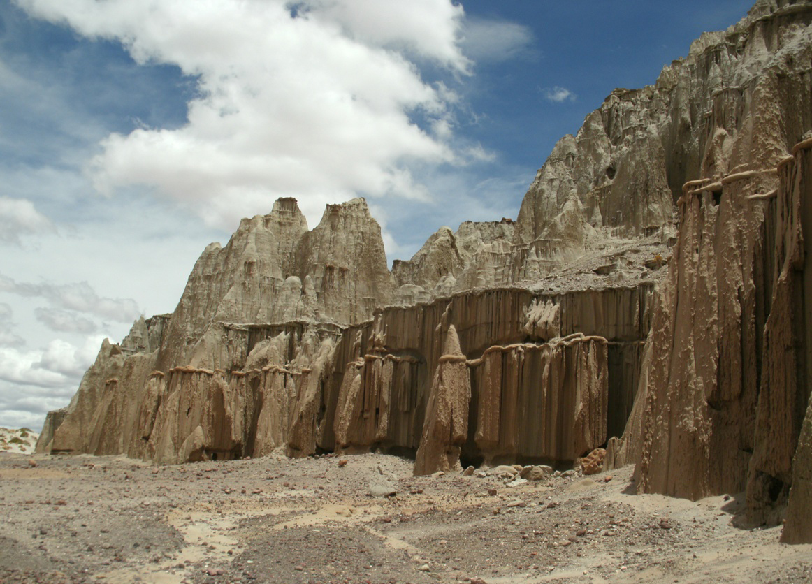 Bolivia